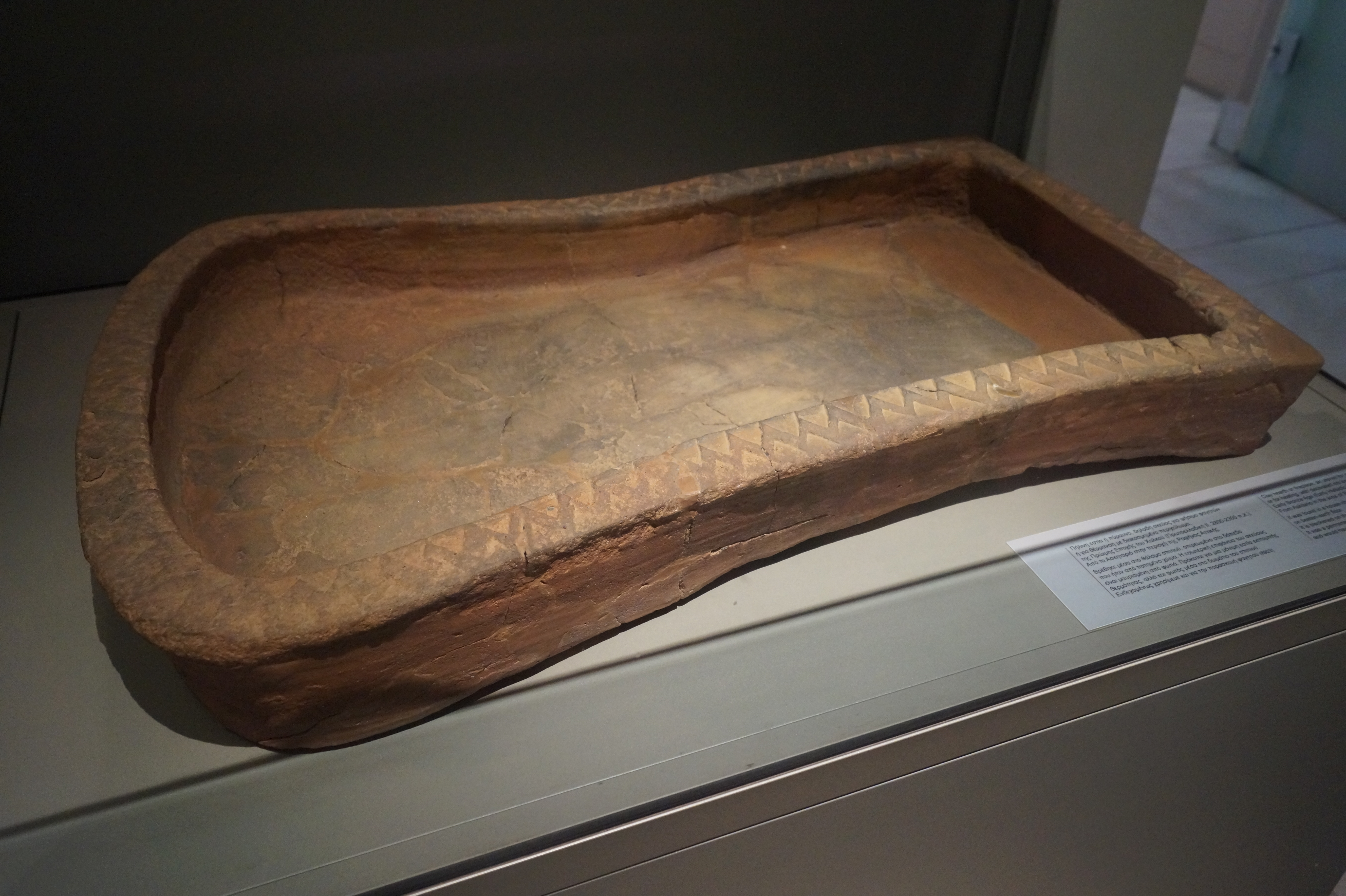 National Archaeological Museum of Athens: Clay hearth from the archaeological site of Askitario. Early Bronze Age (EH II, 2800-2300 BC) (NAMA 8903)